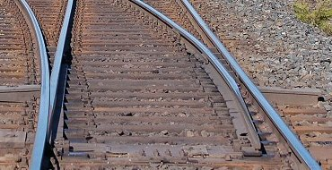 Detail of a set of points (US: switch) showing the point blades (US:points).